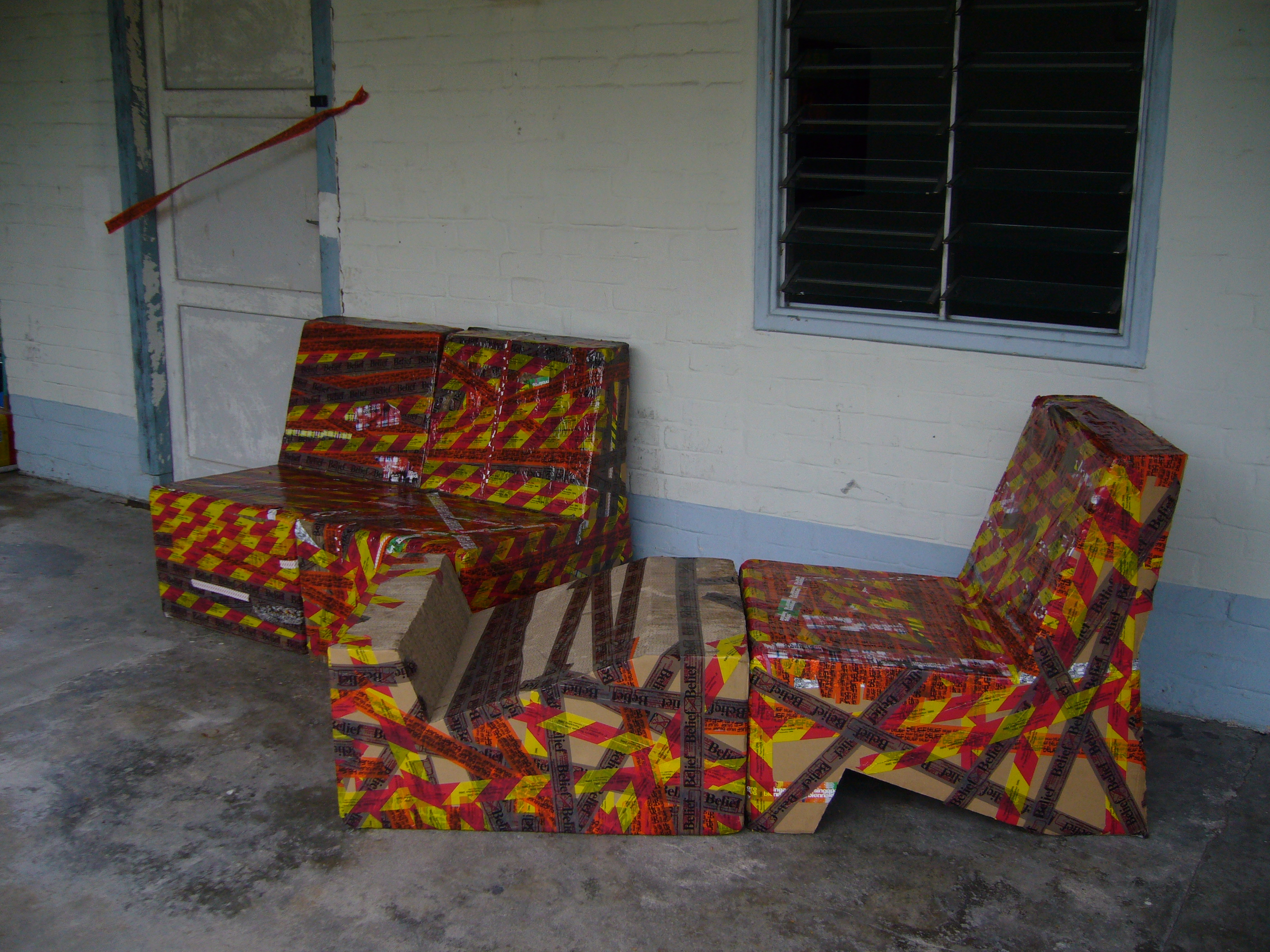 Cardboard furniture designed by Mark Wee, Robin Wau & Jonathan Choe for the Singapore Biennale Opening Party, which was later exhibited at Tanglin Camp, City Hall, and in Shigeru Ban's Cardboard Pavillion on the SMU Campus.